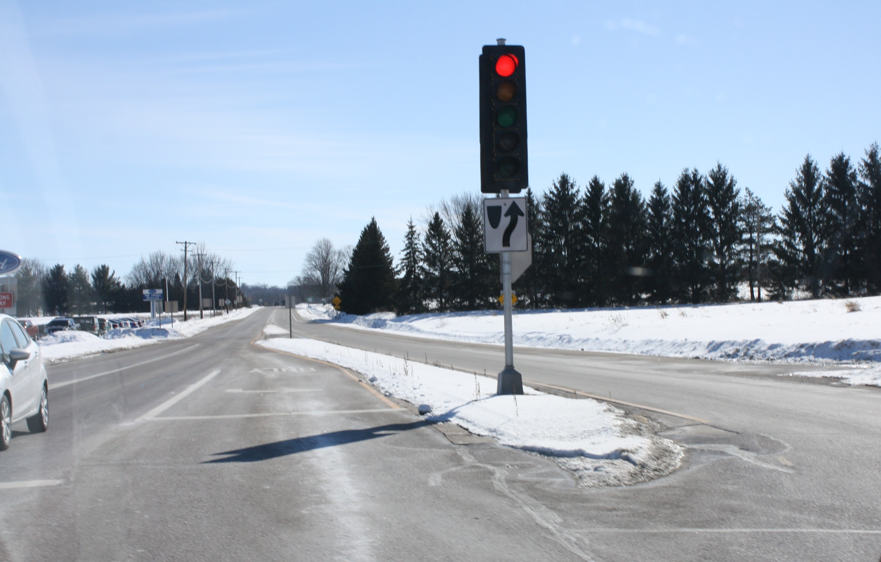 Looking easterly down the western terminus of Wisconsin Highway 115 from U.S. Route 45.